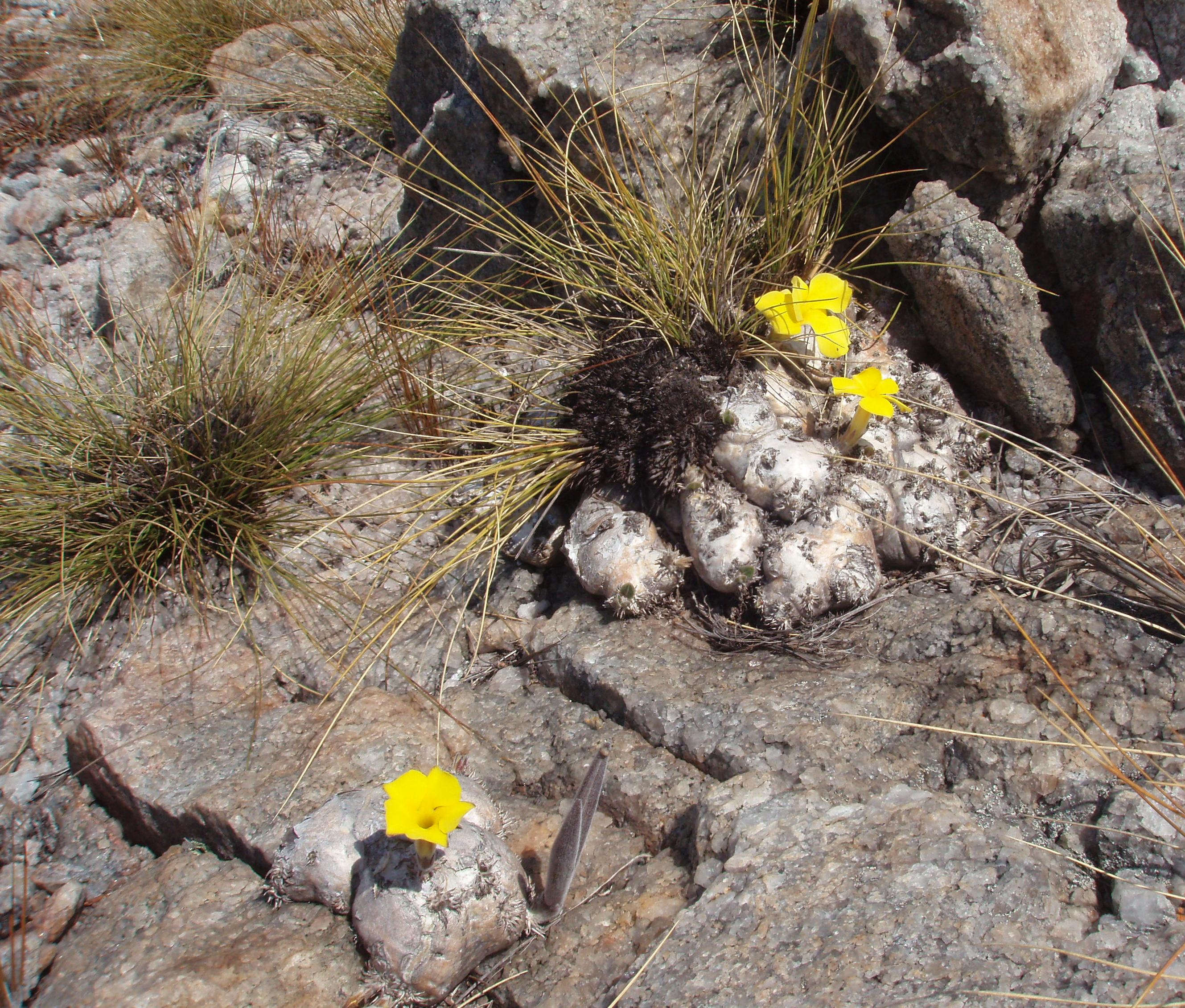 Pachypodium species growing on a quartzitic substratum. Antanifotsy district, central Madagascar, altitude about 1640 m.